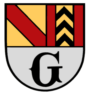 Coat of arms of Gallenweiler in Heitersheim